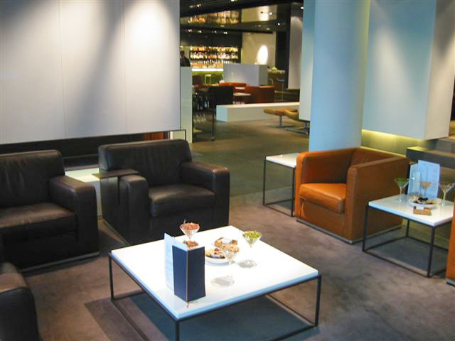 Lufthansa First class airport lounge seating area at Flughafen Frankfurt am Main, Germany.